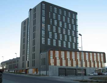 Kalaallisut: Photo of Teletårnet (the Teletower) in Nuuk, Greenland. Photo by Aputsiaq Janussen, hereby GNU FDL licensed.